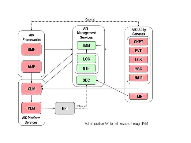 Diagram of th eTypical Dependency Relations between Application Interface Specifications (AIS) Services